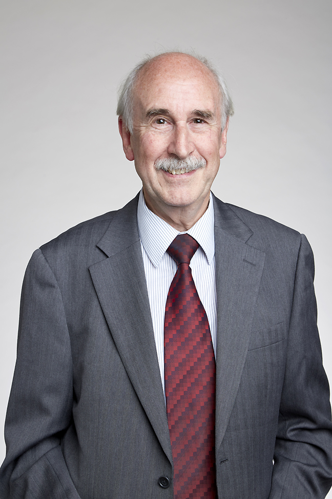 Roy Michael Harrison (born 1948) OBE FRS FRSC is the Queen Elizabeth II Birmingham Centenary Professor of Environmental health at the University of Birmingham in the UK and a Distinguished Adjunct Professor at King Abdulaziz University in Jeddah, Saudi Arabia Attribution: The Royal Society